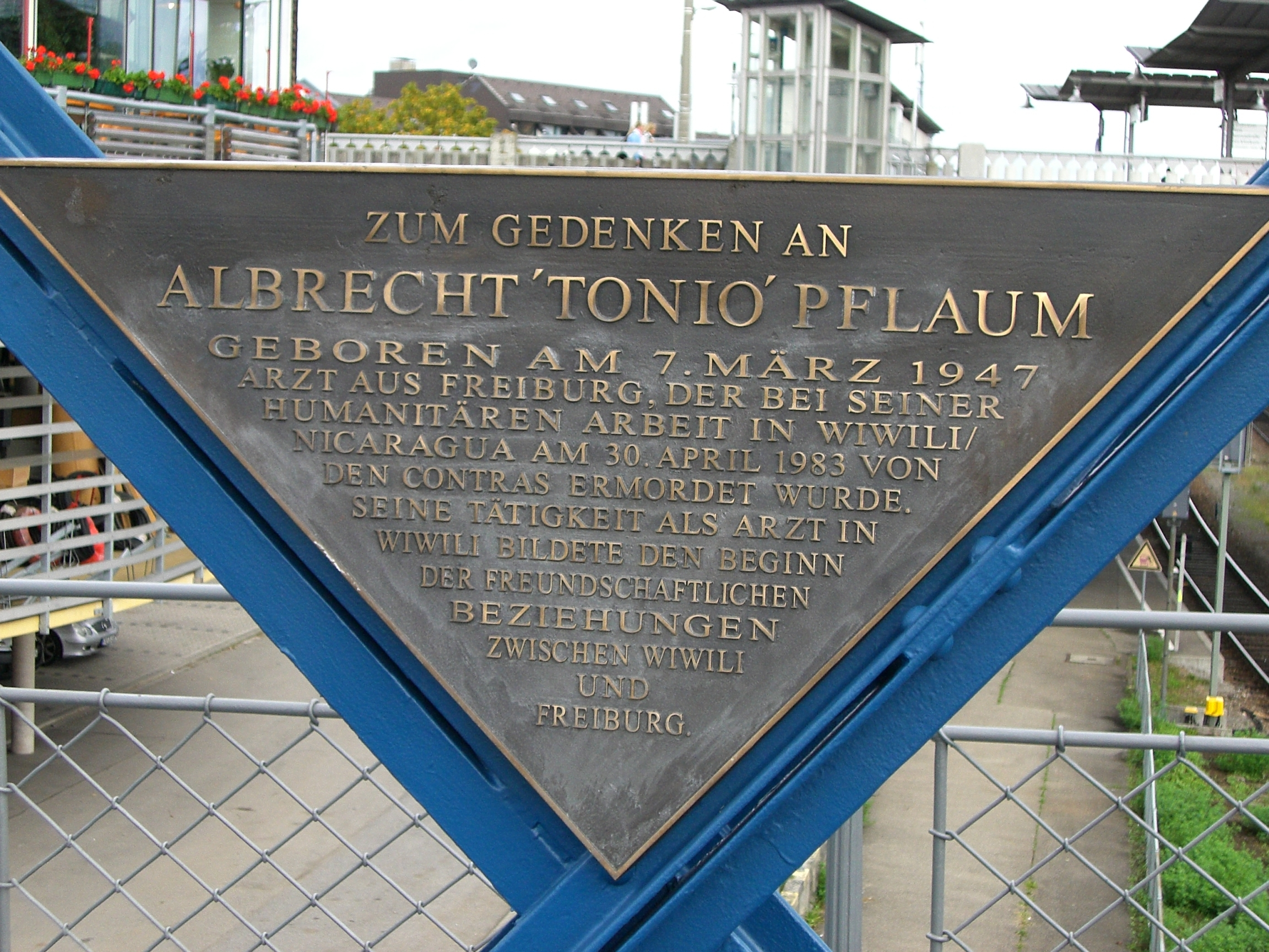 commemorative plaque for Albrecht Plaum Wiwilli bridge